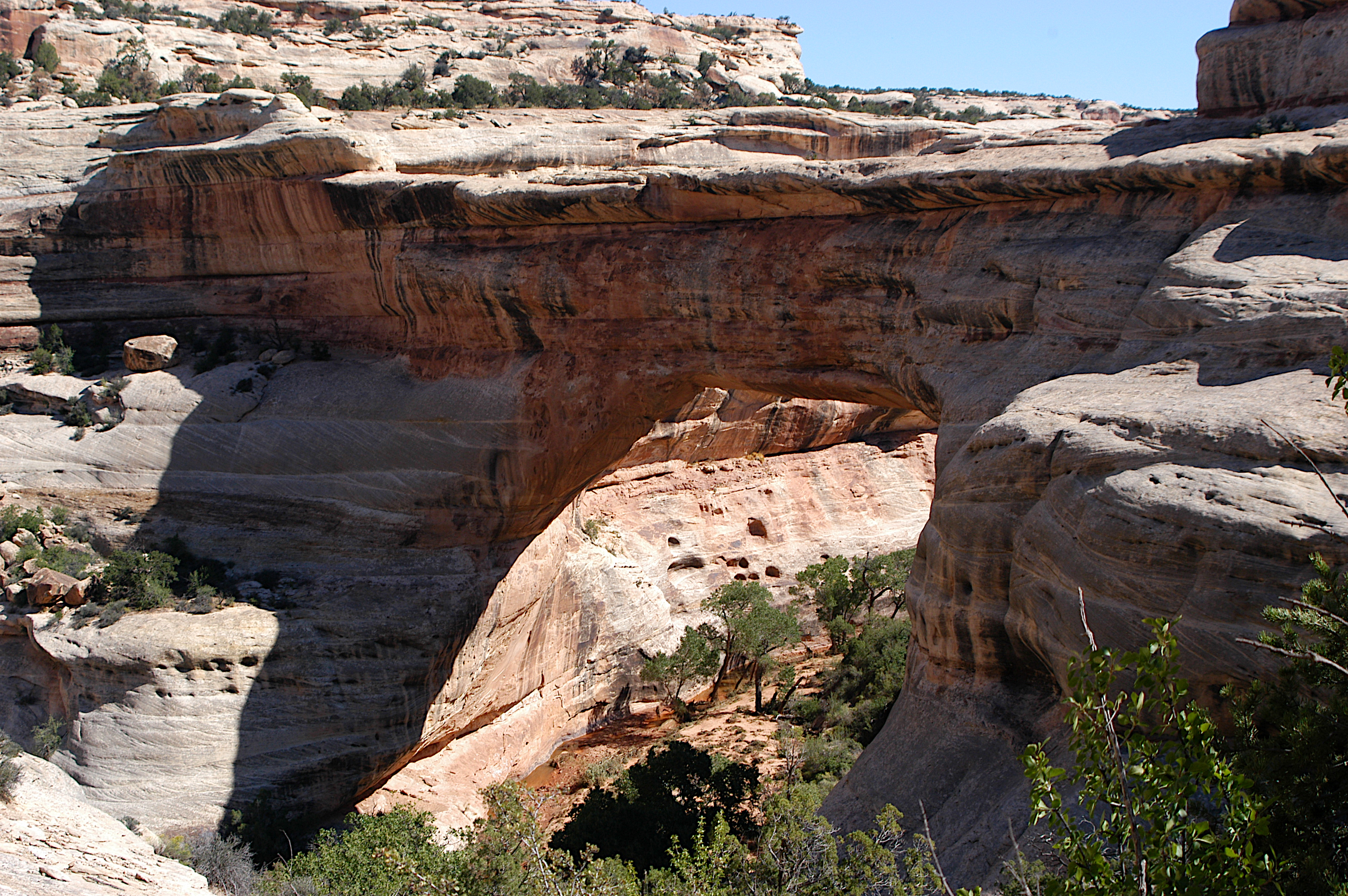 Sipapu Bridge, Natural Bridges N.M. Photo taken by me and released under the GNU FDL